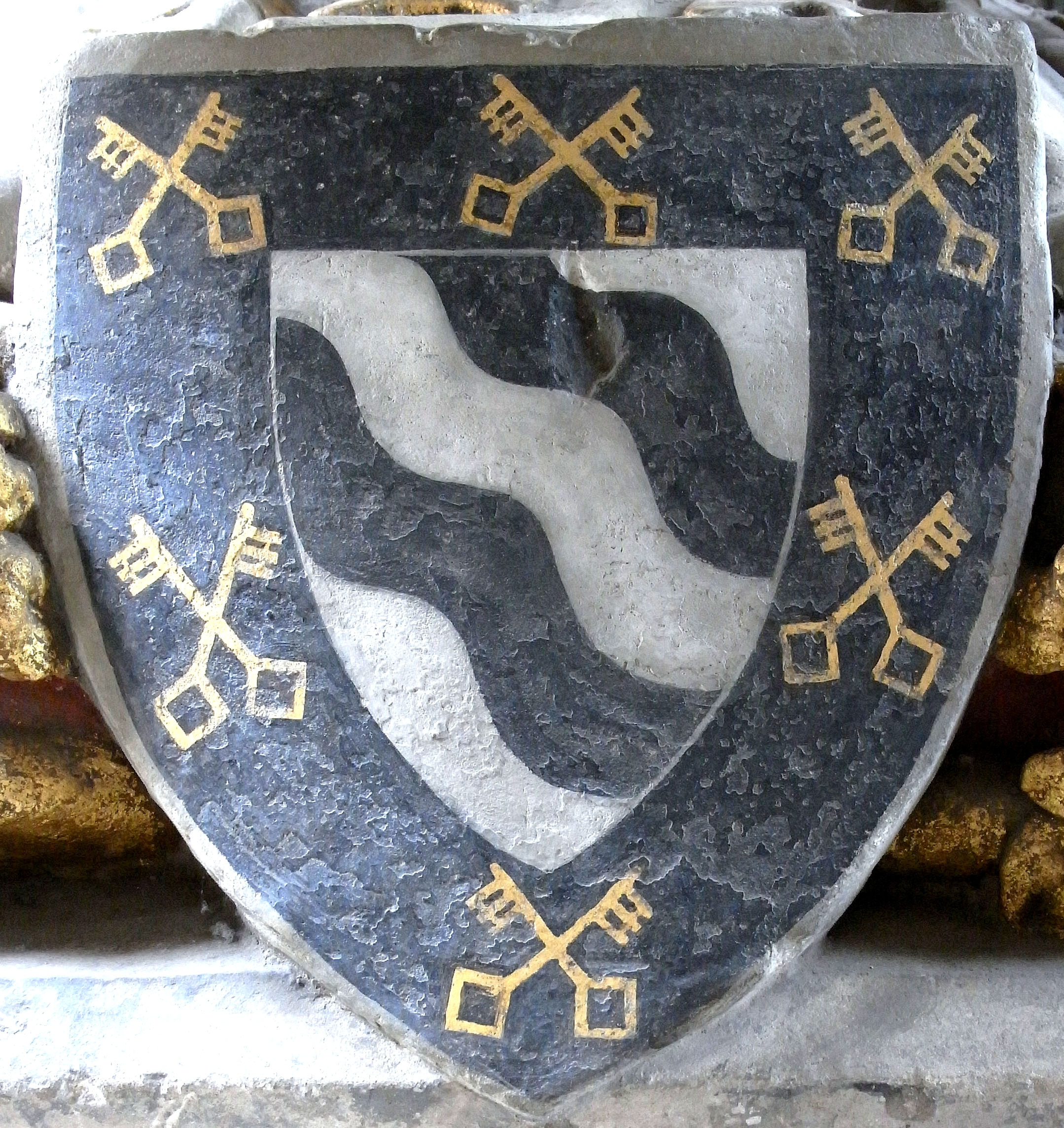 Armorials of Bishop Walter de Stapledon (1261-1326), Bishop of Exeter. Detail from his monument in Exeter Cathedral, north side of high altar. Arms: Argent, two bendlets wavy sable (Stapledon) within a bordure of the last charged with six pairs of keys addorsed and interlaced in the rings the wards upwards or (bordure of Bishop Stapledon). Bendlets sometimes shown nebuly.